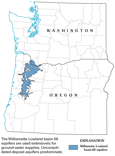 Map showing Willamette Lowland basin-fill aquifer extent, includes Oregon and Washington State with county boundaries, with aquifer coloured blue